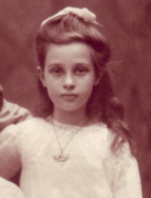 Prince Maximilian of Baden, his wife Princess Marie Louise, daughter Princess Marie Alexandra and son Prince Berthold sometime before World War I.